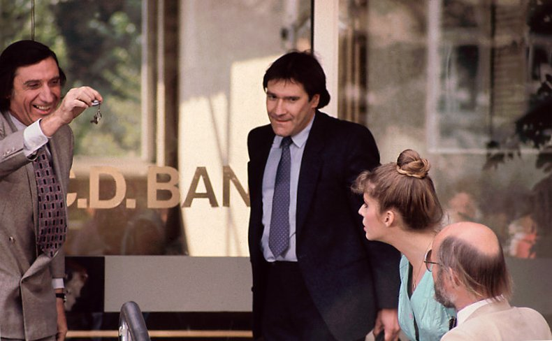 Herbert Fux (left), Gerd Leienbach, Olivia Pascal und Hans Herbert Böhrs (right) on the set of german tv music and comedy show Bananas, Ratingen